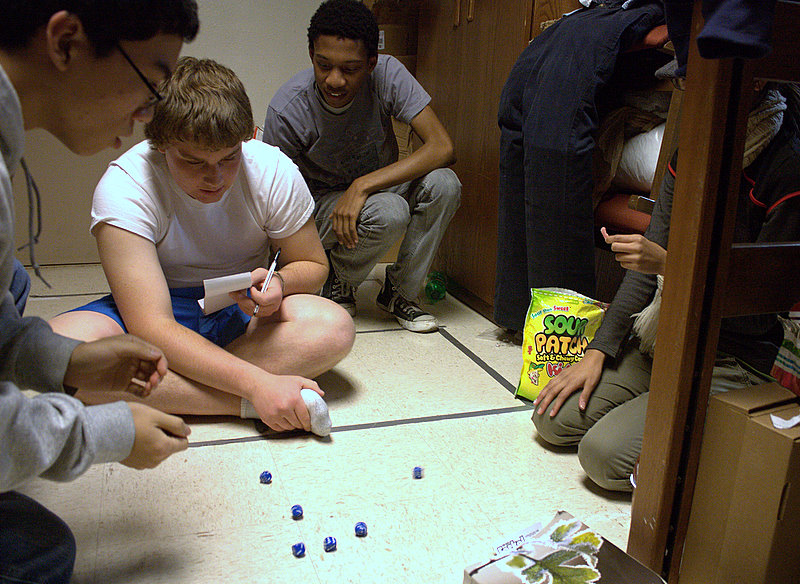 A group of college roommates playing Farkel